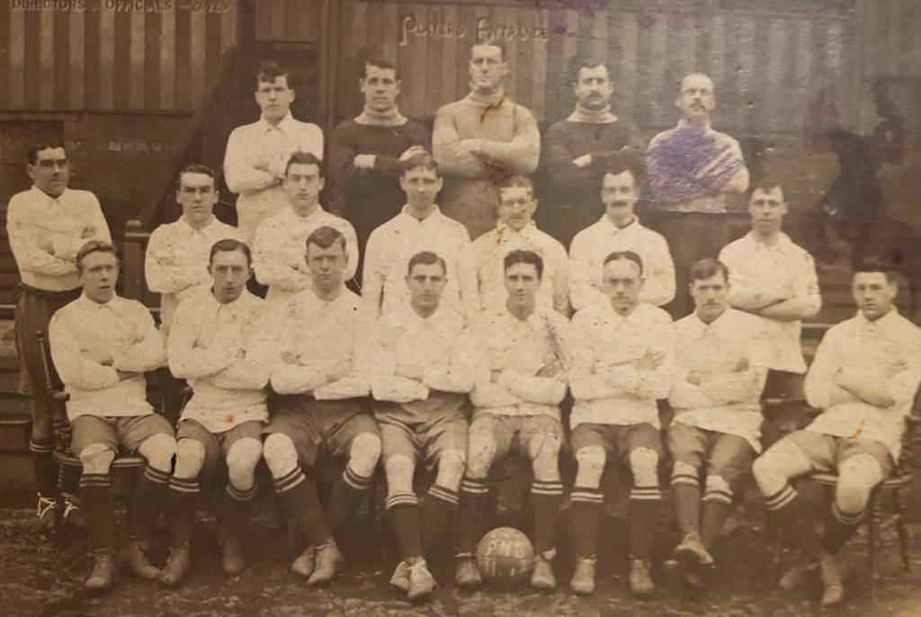 Sydney Beaumont at Preston North End. Bottom row 3rd from right